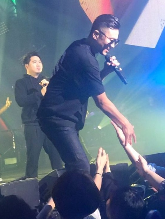 Joon Lee Into the Light concert 2018